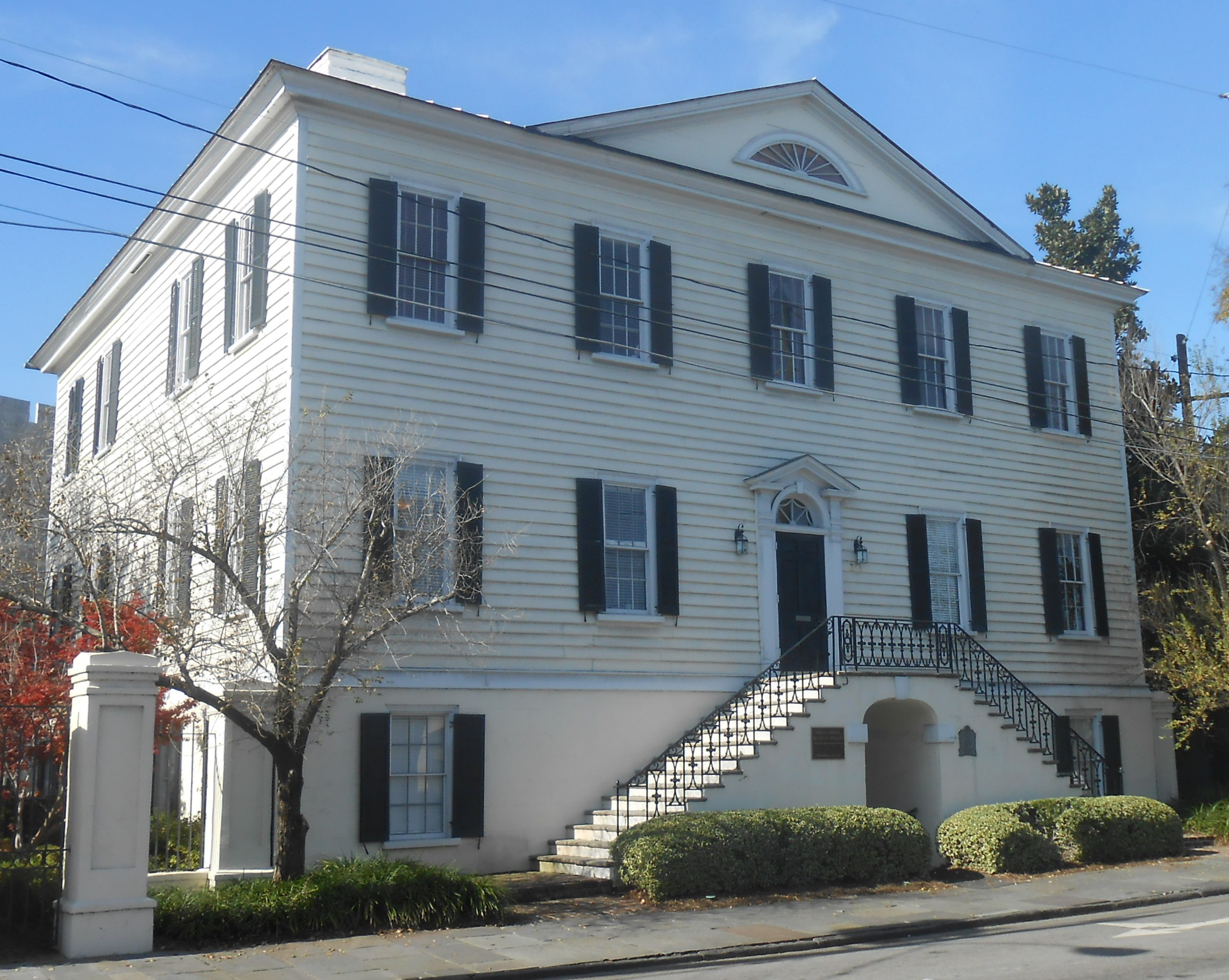 321 East Bay Street, Charleston, South Carolina